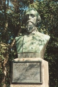 Brig. Gen. Evander McNair, bronze bust by Anton Schaaf. Erected in 1915 at Vicksburg National Military Park.